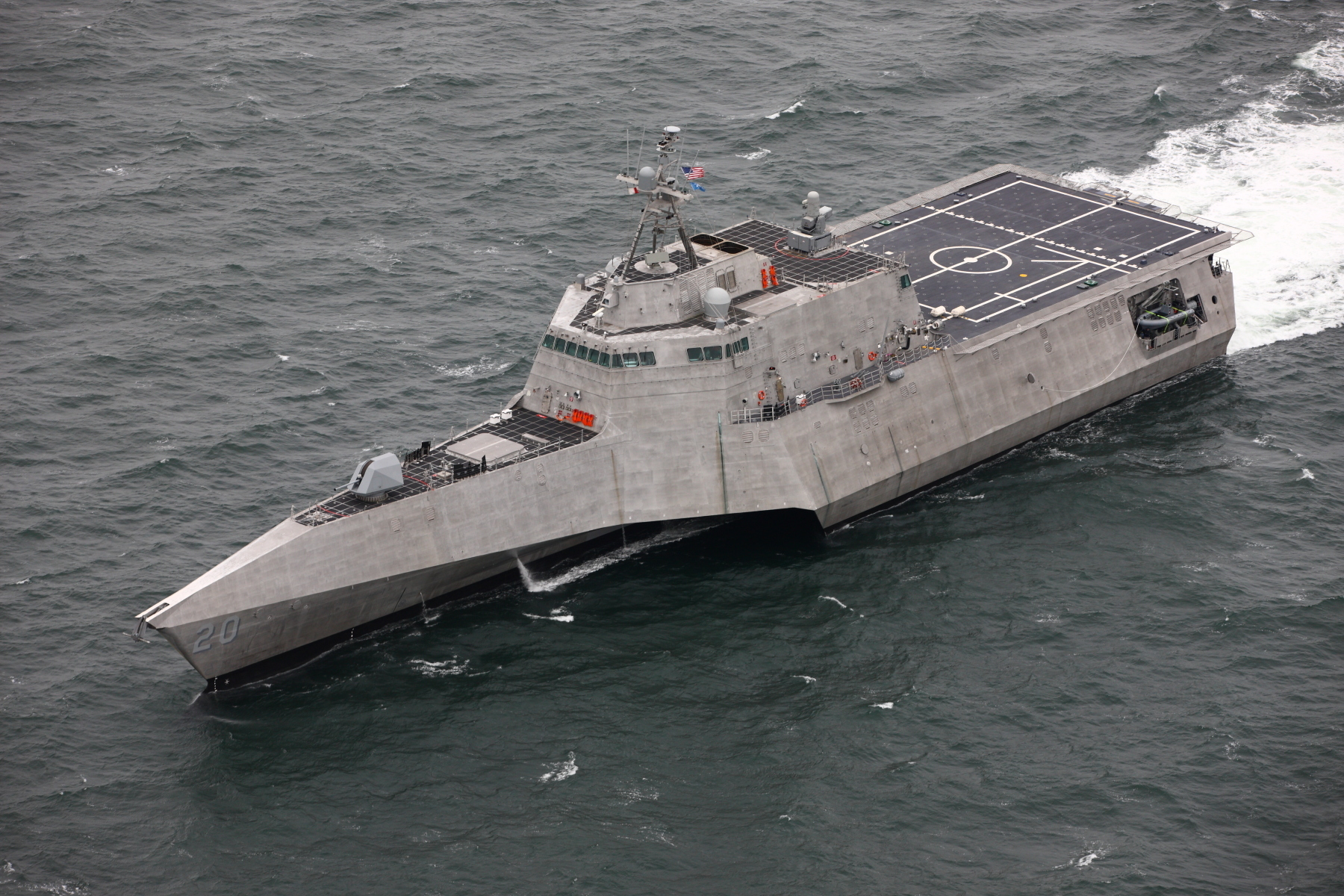 The U.S. Navy littoral combat ship USS Cincinnati (LCS-20) underway during acceptance trials in the Gulf of Mexico, in 2019. Note: The photo was published on 18 July 2019, however file name and EXIF-data give the date as 10 February 2019.